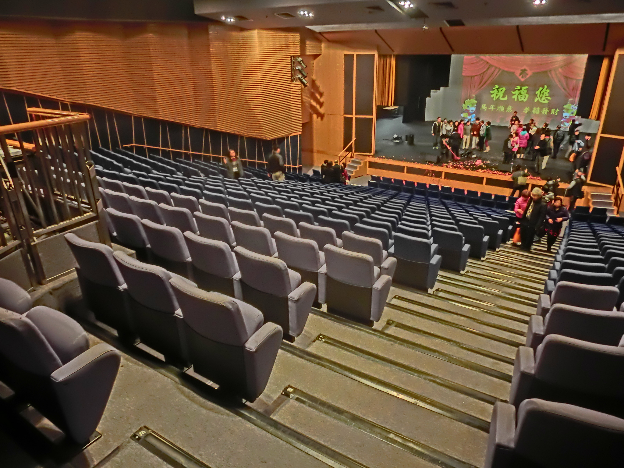 Sheung Wan Civic Centre 上環文娛中心, Sheung Wan, Hong Kong